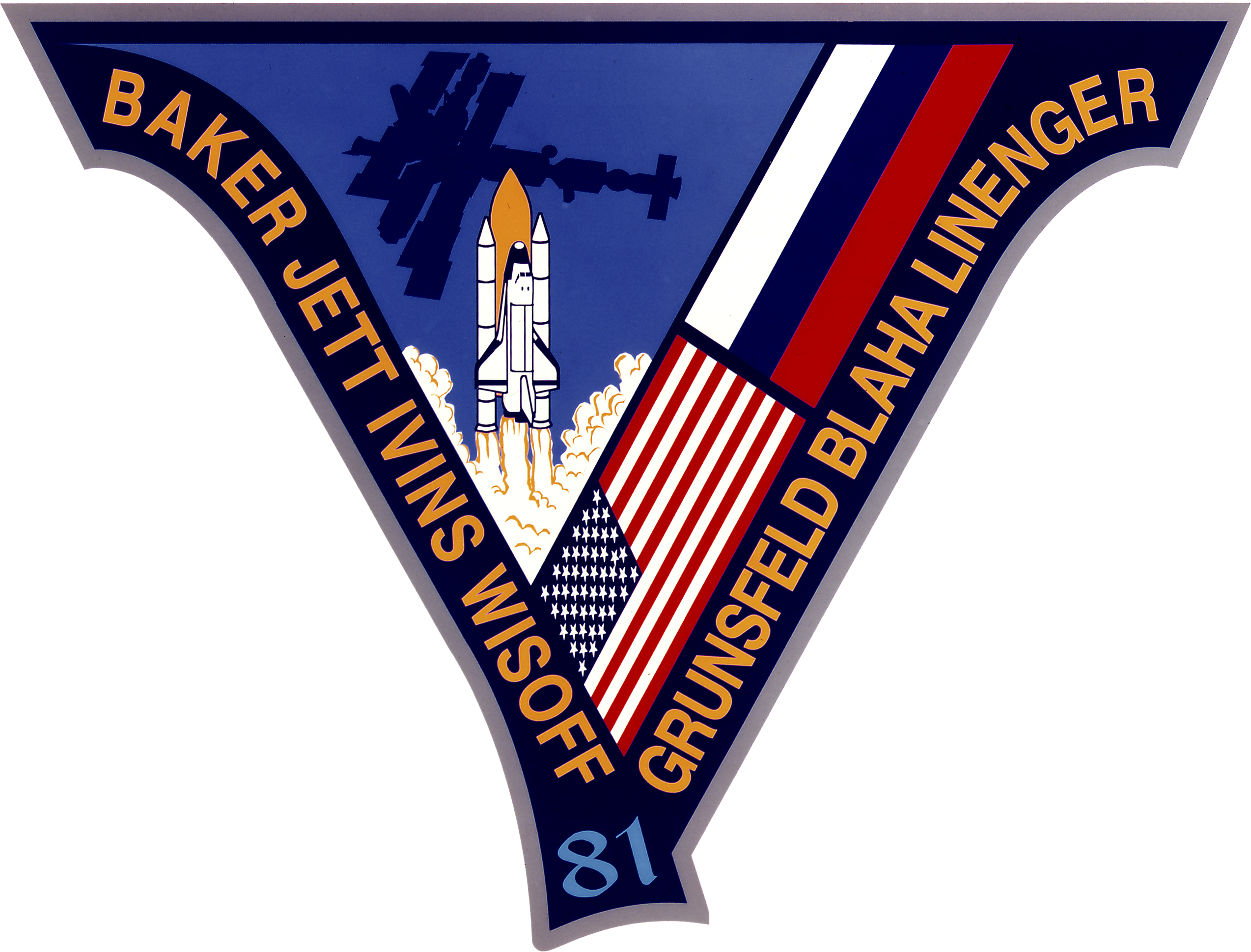 The crew patch for STS-81 , the fifth Shuttle-Mir docking mission, is shaped to represent the Roman numeral V. The Shuttle Atlantis is launching toward a rendezvous with Russia's Mir Space Station, silhouetted in the background. Atlantis and the STS-81 crew spent several days docked to Mir during which time Jerry M. Lineger (NASA-Mir-4) replaced astronaut John Blaha (NASA-Mir-3) as the U.S. crew member onboard Mir. The U.S. and Russian flags are depicted along with the names of the shuttle crew.